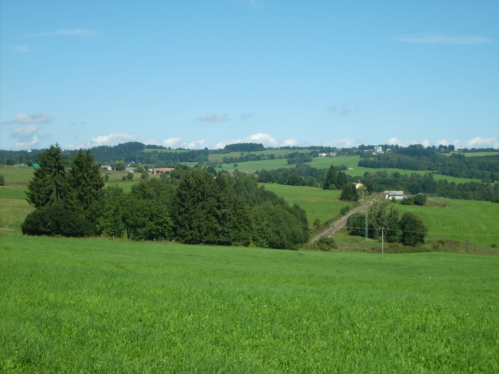 Railway Marienbad - Carlsbad near Vlkovice tunell.